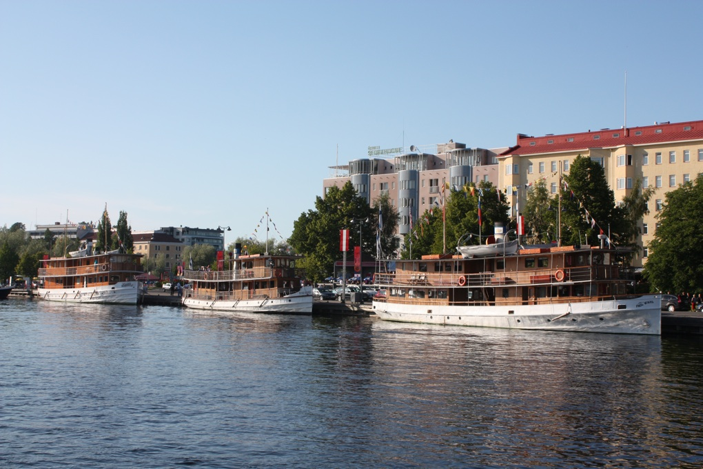 Port of Savonlinna in Savonlinna, Finland, in July 2009.